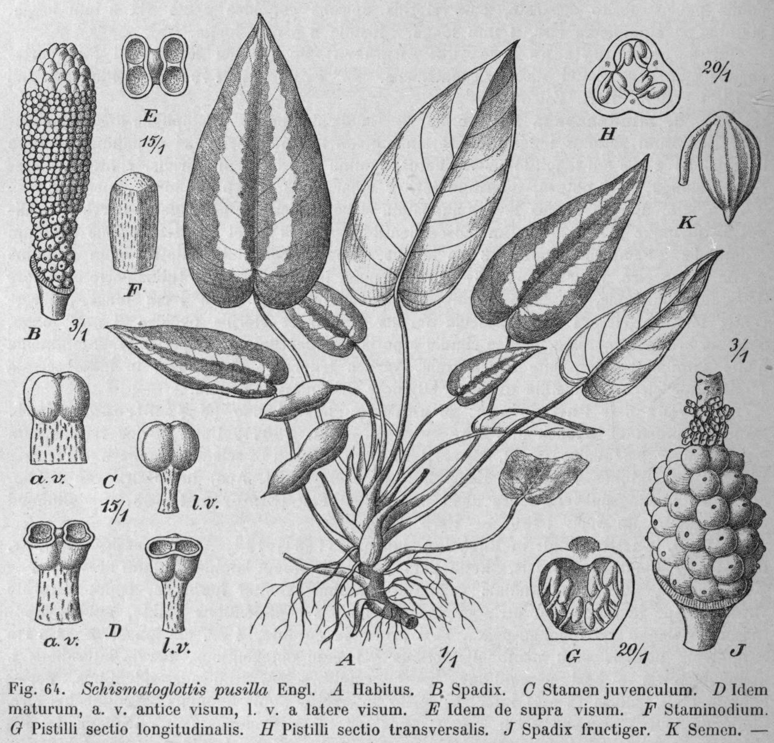 Schismatoglottis pusilla from Das Pflanzenreich